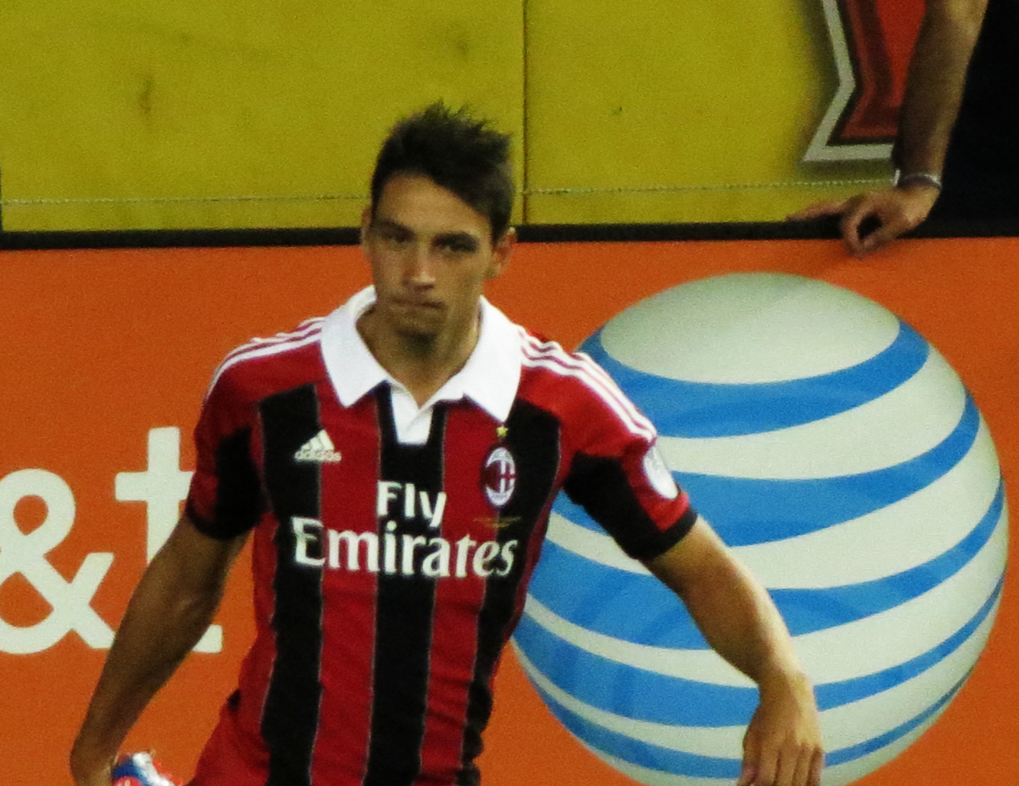 Mattia De Sciglio stretching before he enters the field against Real Madrid in August 2012.